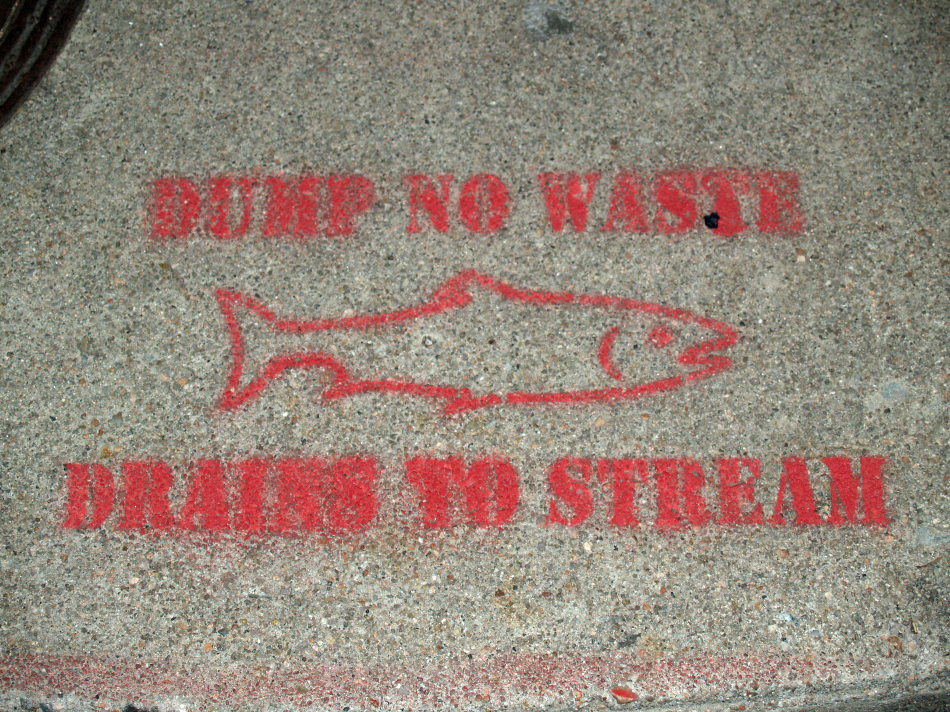 A Colorado Springs spray-painted sign above a sewer warning people not to dump waste into the sewer as it leads to a stream.